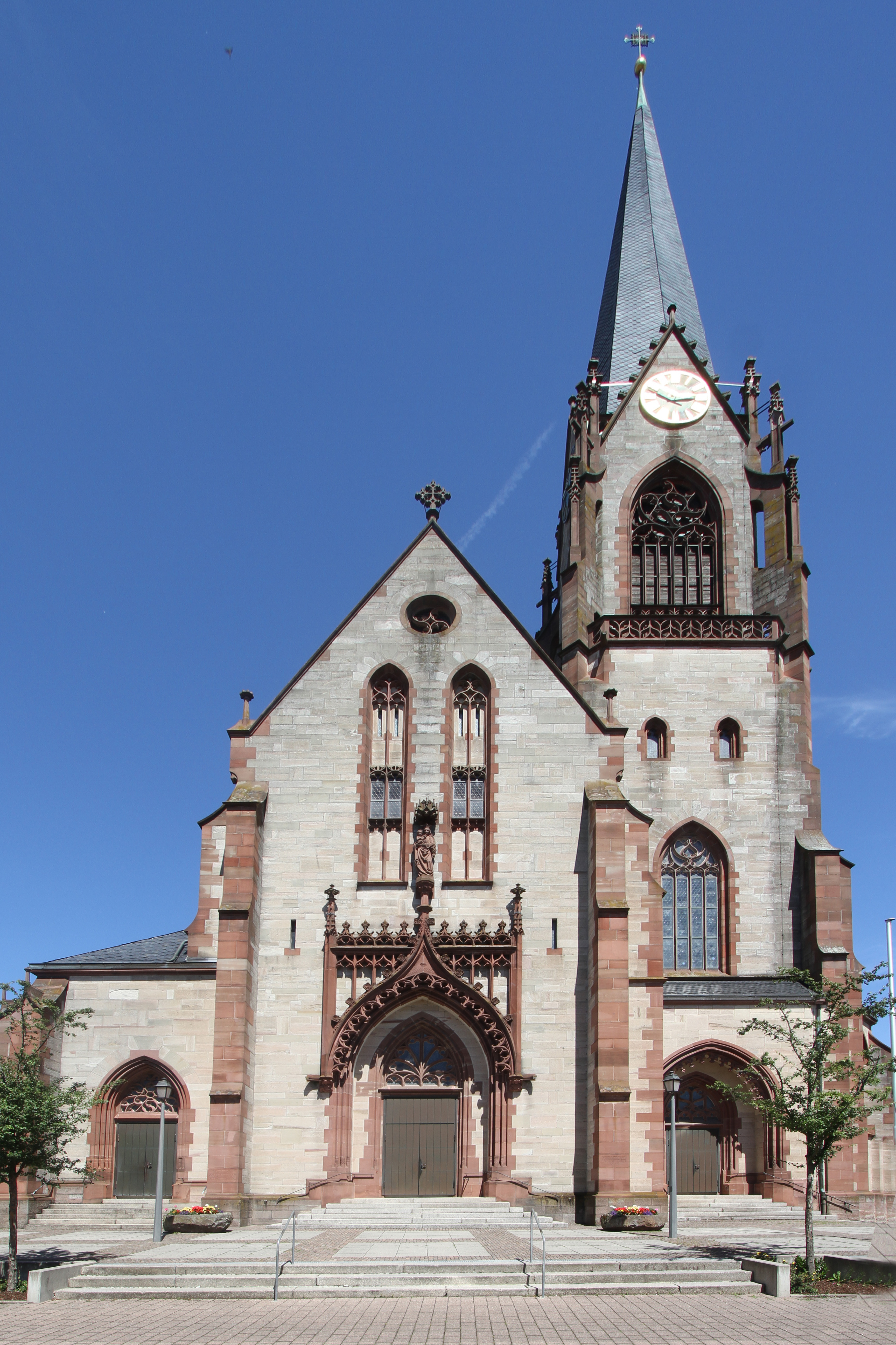 Church Maria Königin der Engel in Muggensturm.